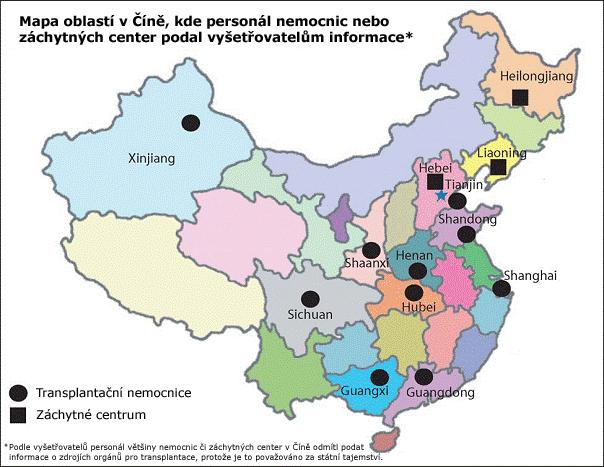 The map of China which follows indicates the regions where detention or hospital personnel have made admissions to telephone investigators, that they using living bodies from prisoners who practise Falun Gong.